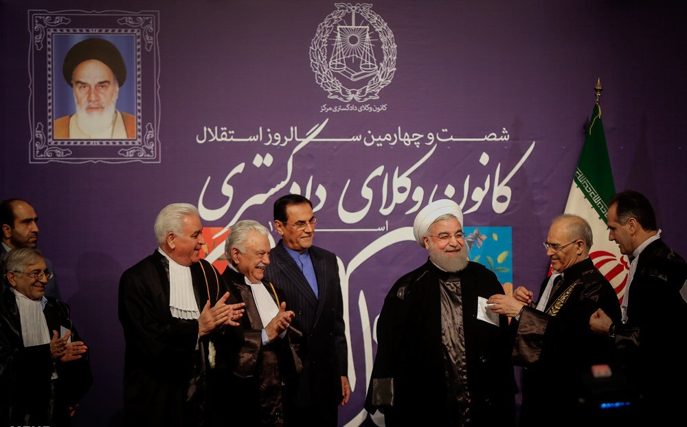 شصت و چهارمین سالروز استقلال کانون وکلای دادگستری